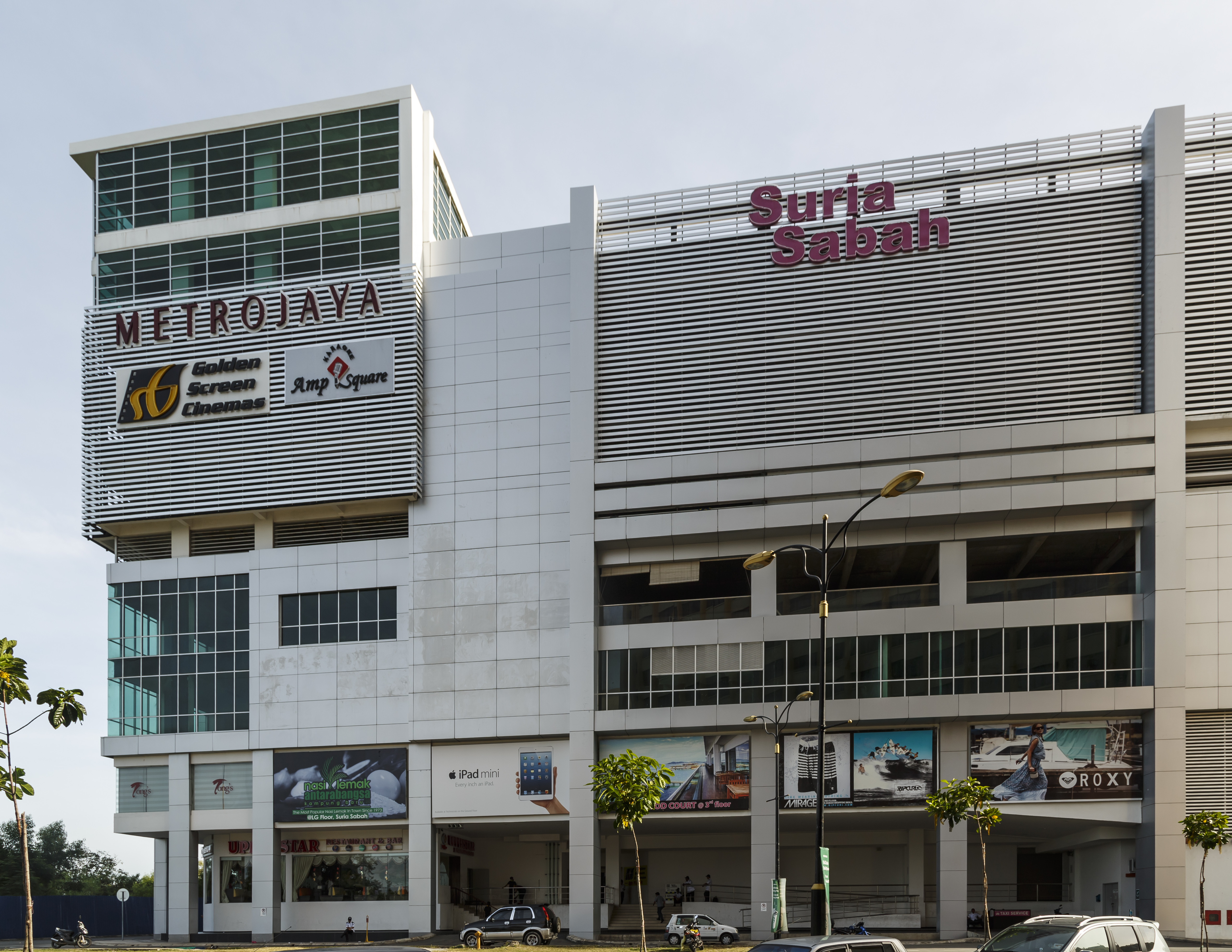 Kota Kinabalu, Sabah: Suria Sabah, view from Gaya Centre Hotel